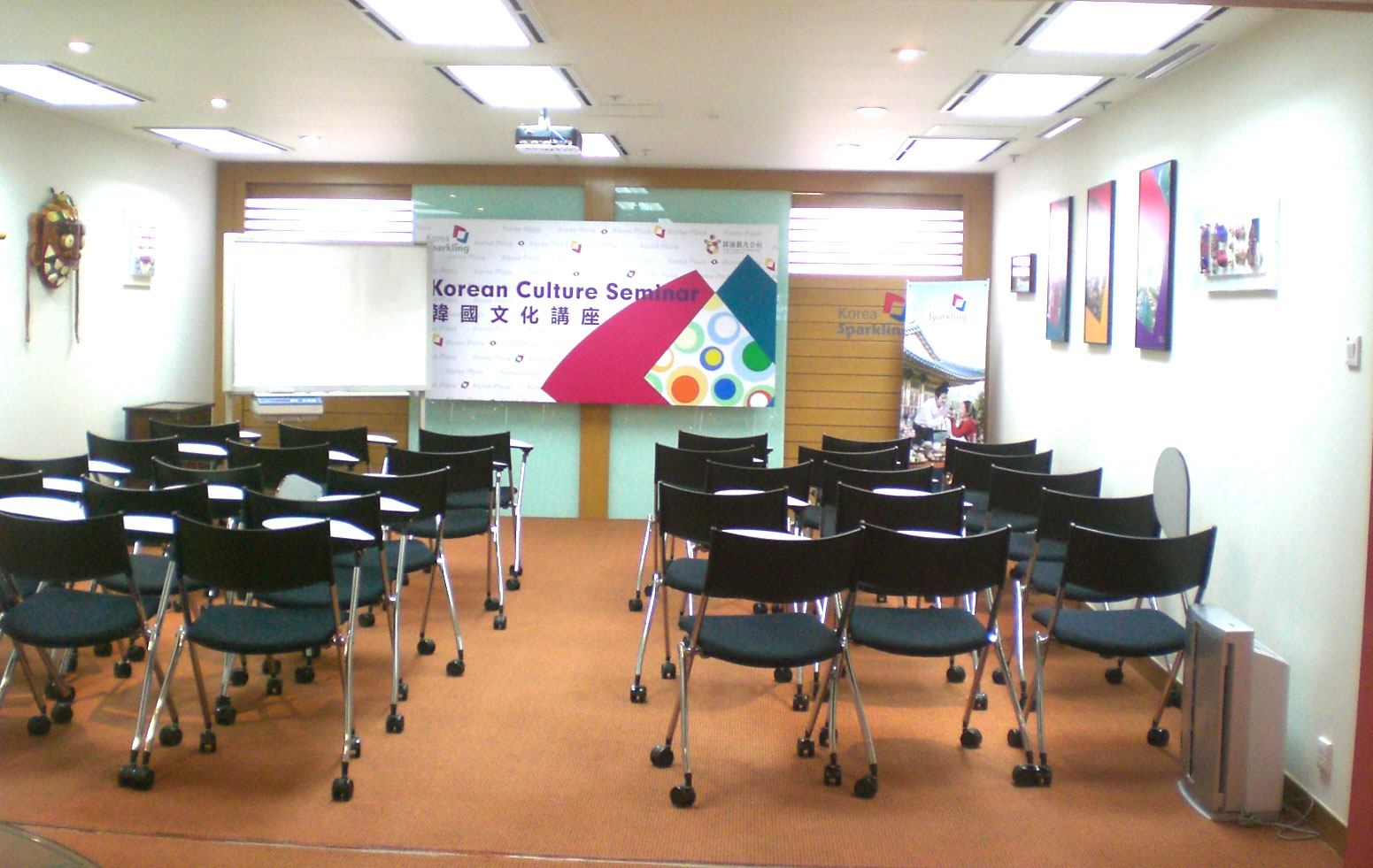 韓國觀光公社，Korea Tourism Organization